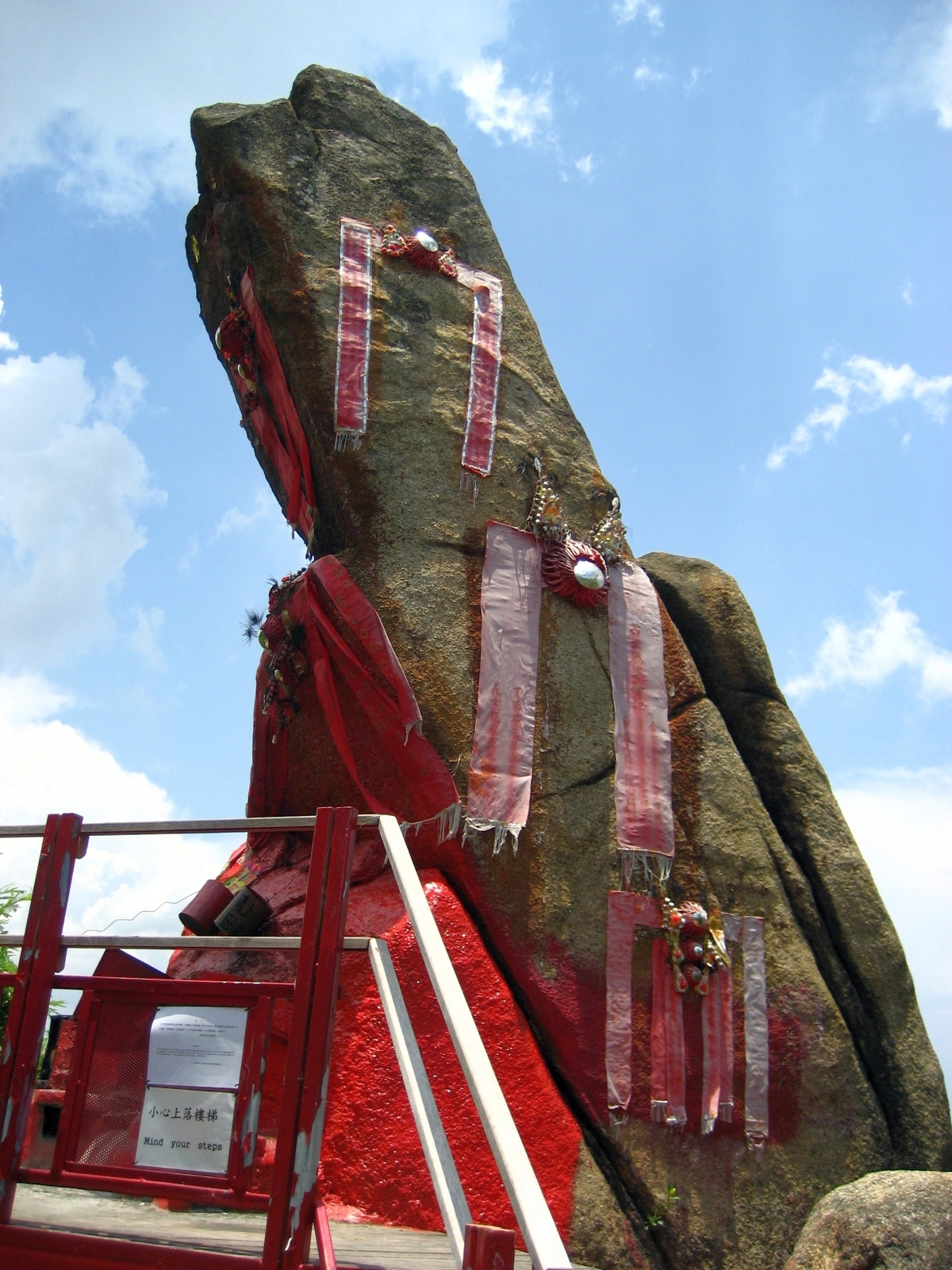 姻緣石 Lovers' Rock